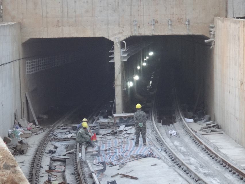 Wuhan metro line4's tunnel